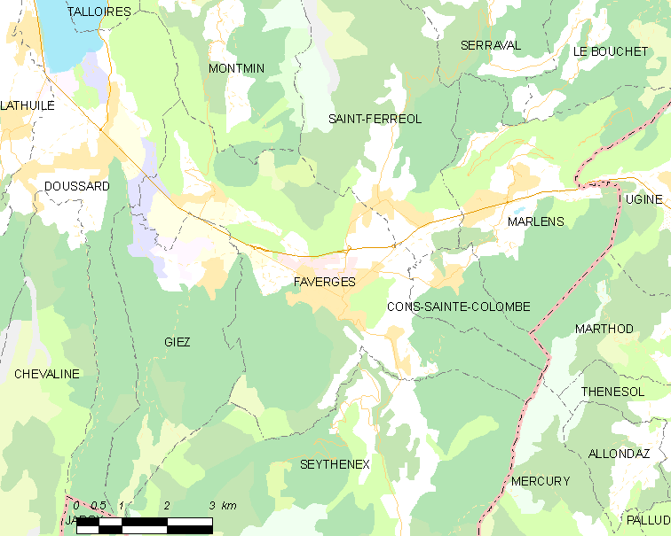 Map of French municipality Faverges